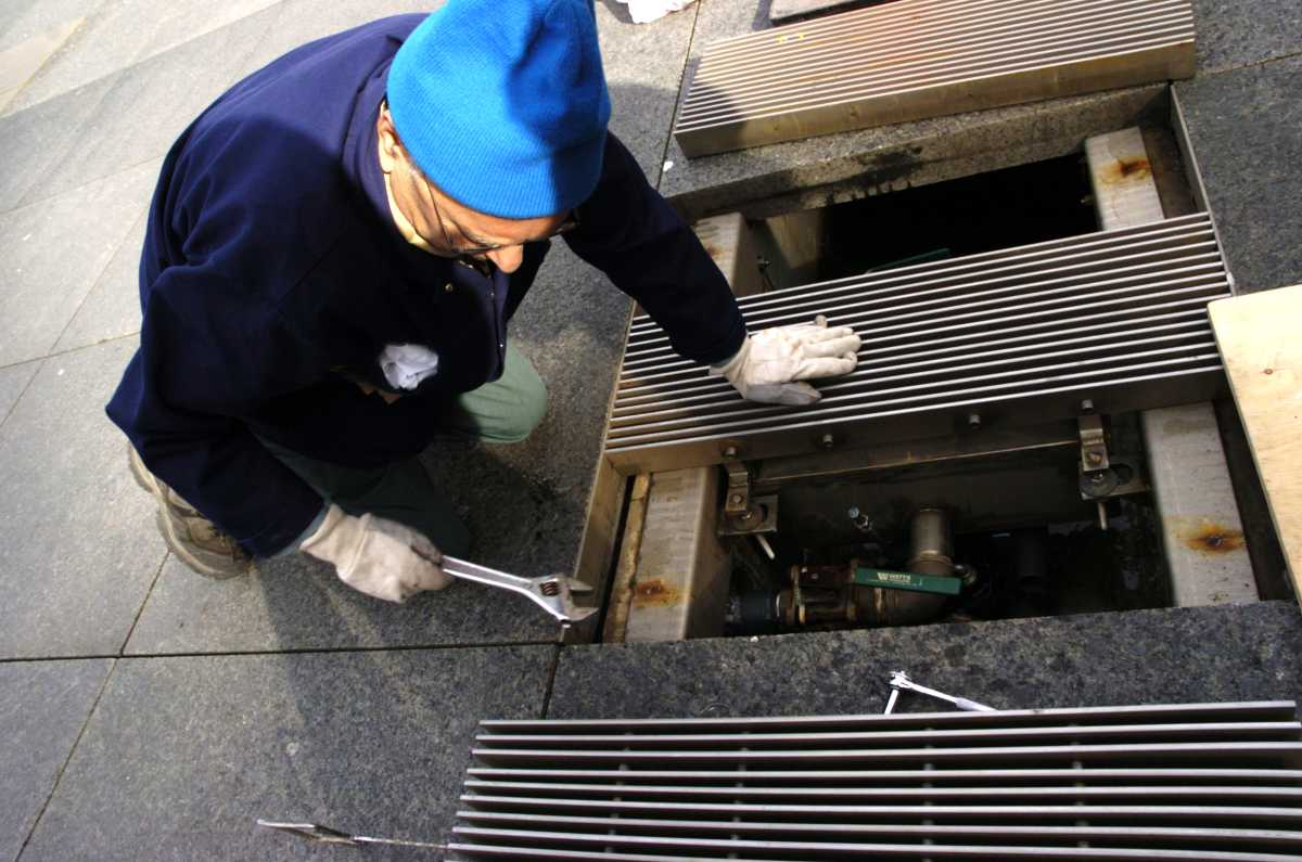 Grille open for shutting down the fountains for the season (shoes raised granite tiles) I captured this newsworthy memory of one of the Dundas Square fountain grilles being opened up for being shut down for the season. This picture is released under the Shared Experience License, Copyright (c) 2004, Steve Mann. Permission is granted to copy, distribute and/or modify this experience under the terms of the ePi Lab Shared Experience License, Version 1.0 or any later version published by the EyeTap Personal Imaging Laboratory. In compliance with the Terms of the above license, the full resolution version of the Personal Experience capture is hereby provided by reference (URL) as